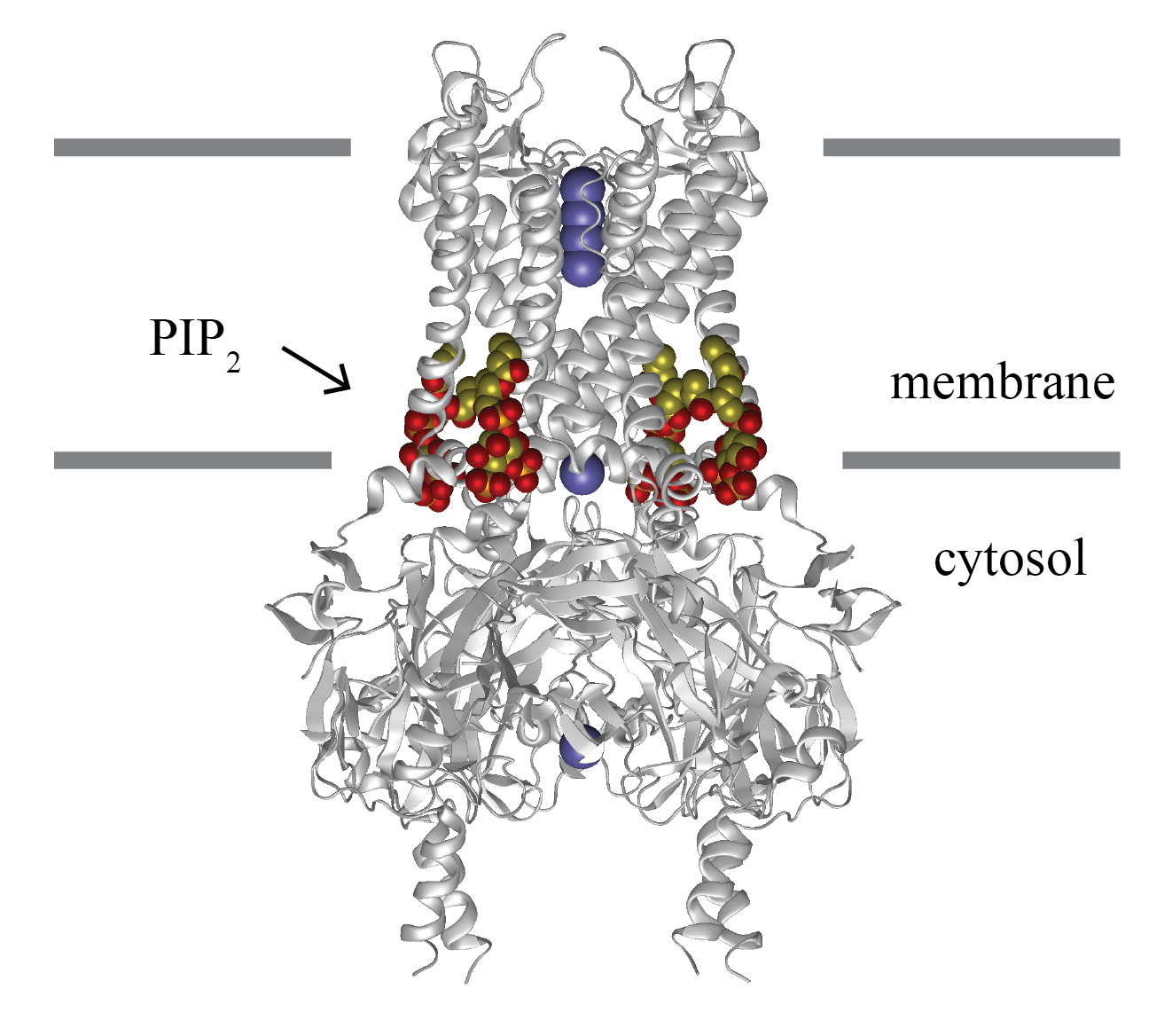 PIP2 bound to TREK-1 PDB 3SPG